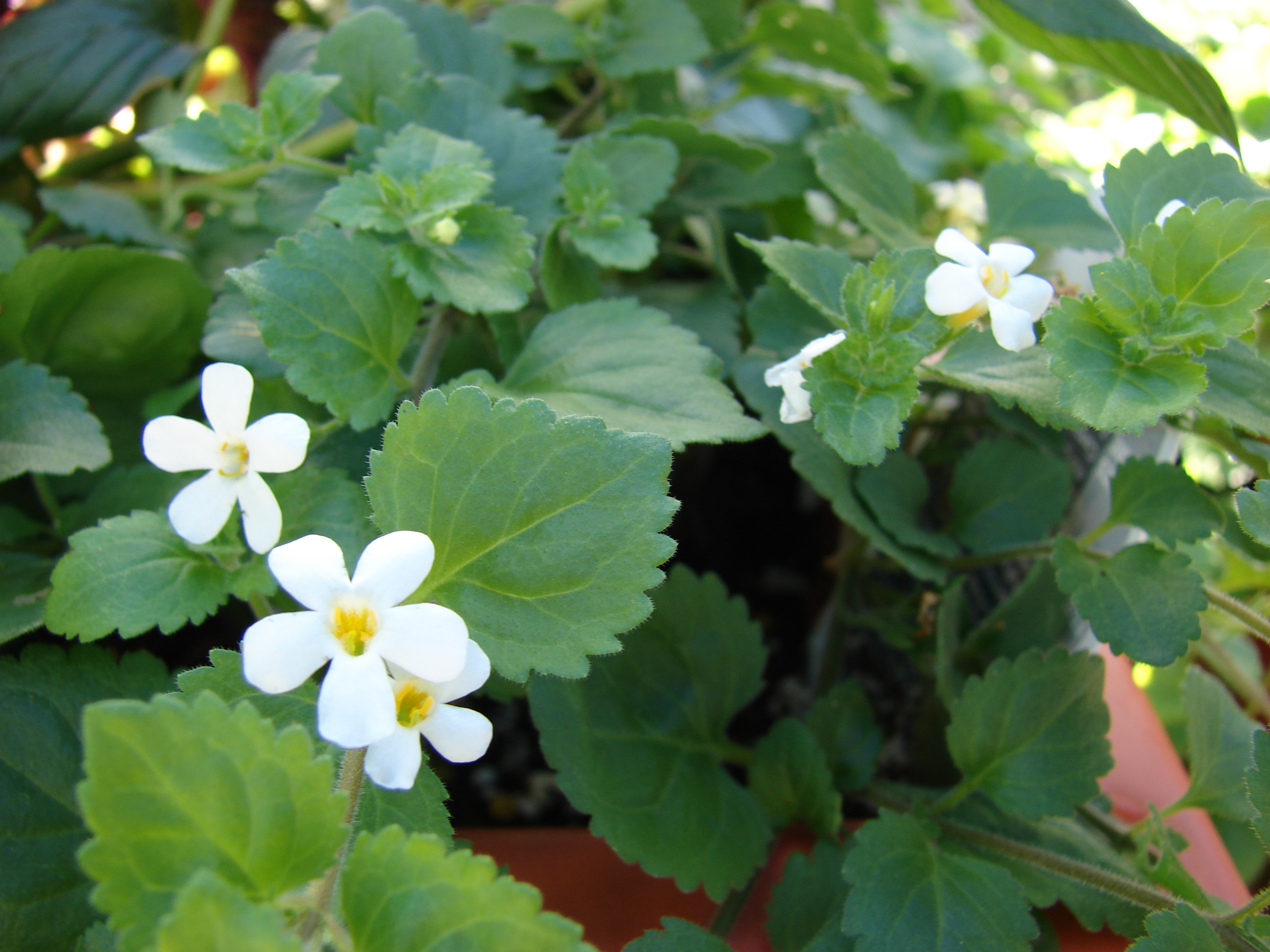 Sutera cordata (flowering habit). Location: Maui, Lowes Garden Center Kahului